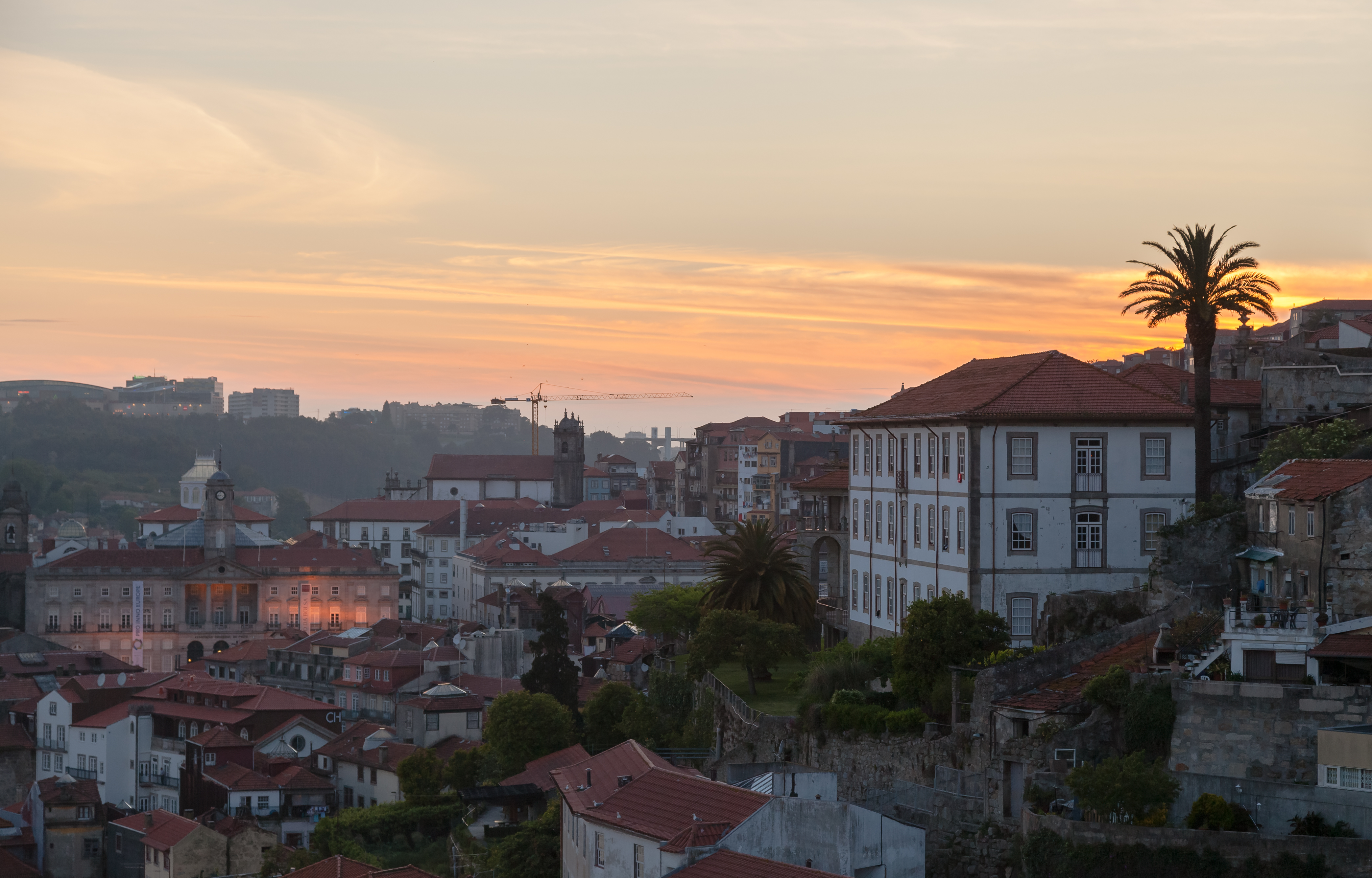 View of Porto from Terreiro da Sé, Portugal